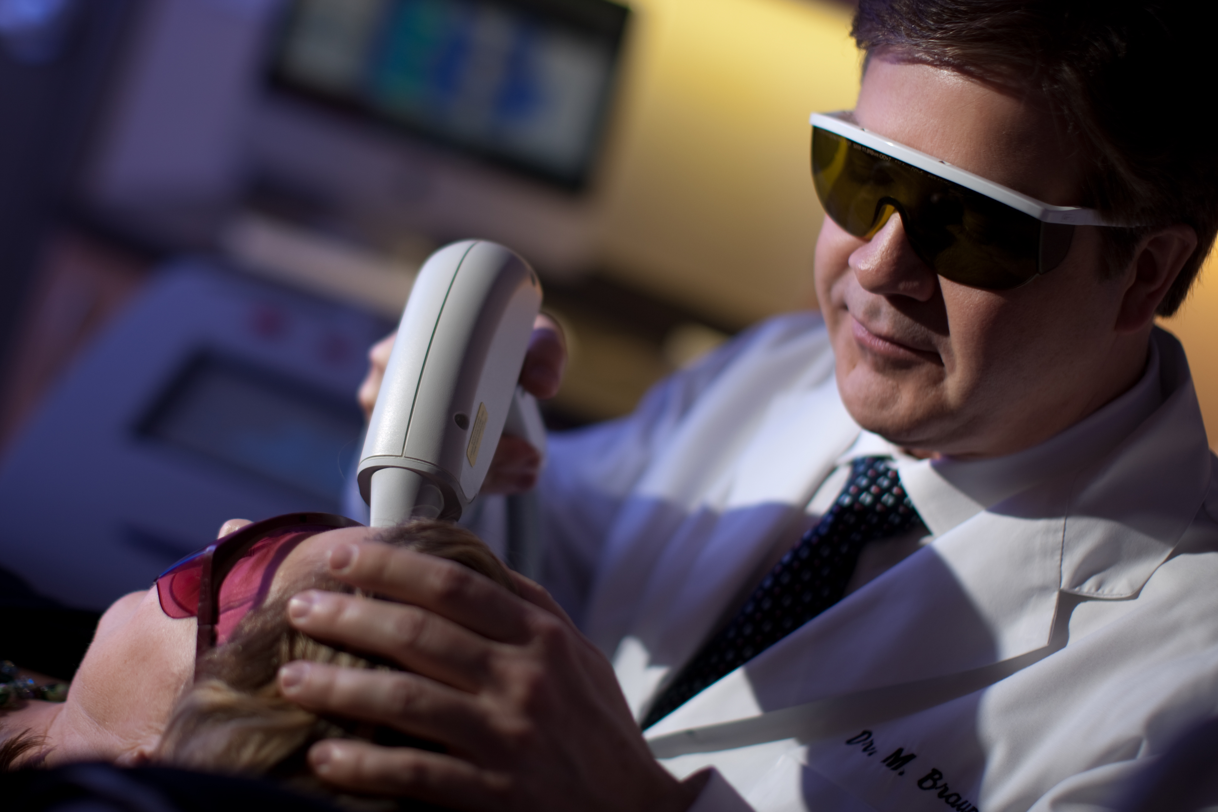 Dr. Braun at the Vancouver Laser & Skin Care Centre uses the latest technology in laser hair removal with the Soprano laser.